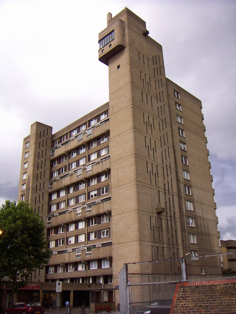 Glenkerry House, Brownfield estate, Poplar, East London. Photo by John Arundel, July 2005.